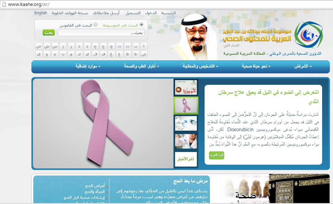 King Abdullah Health encyclopedia snap shot